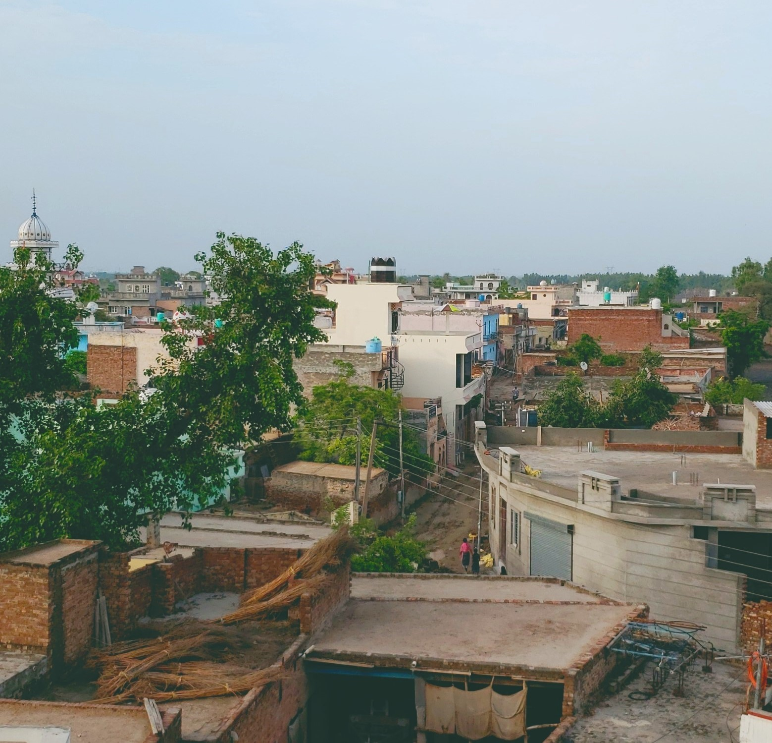 The Village Punian can be seen in the picture from the south side to north side of the village, in photo Gurudwara Sahib of the village can be seen on the left side of photo. The Photo is taken in the july 2019